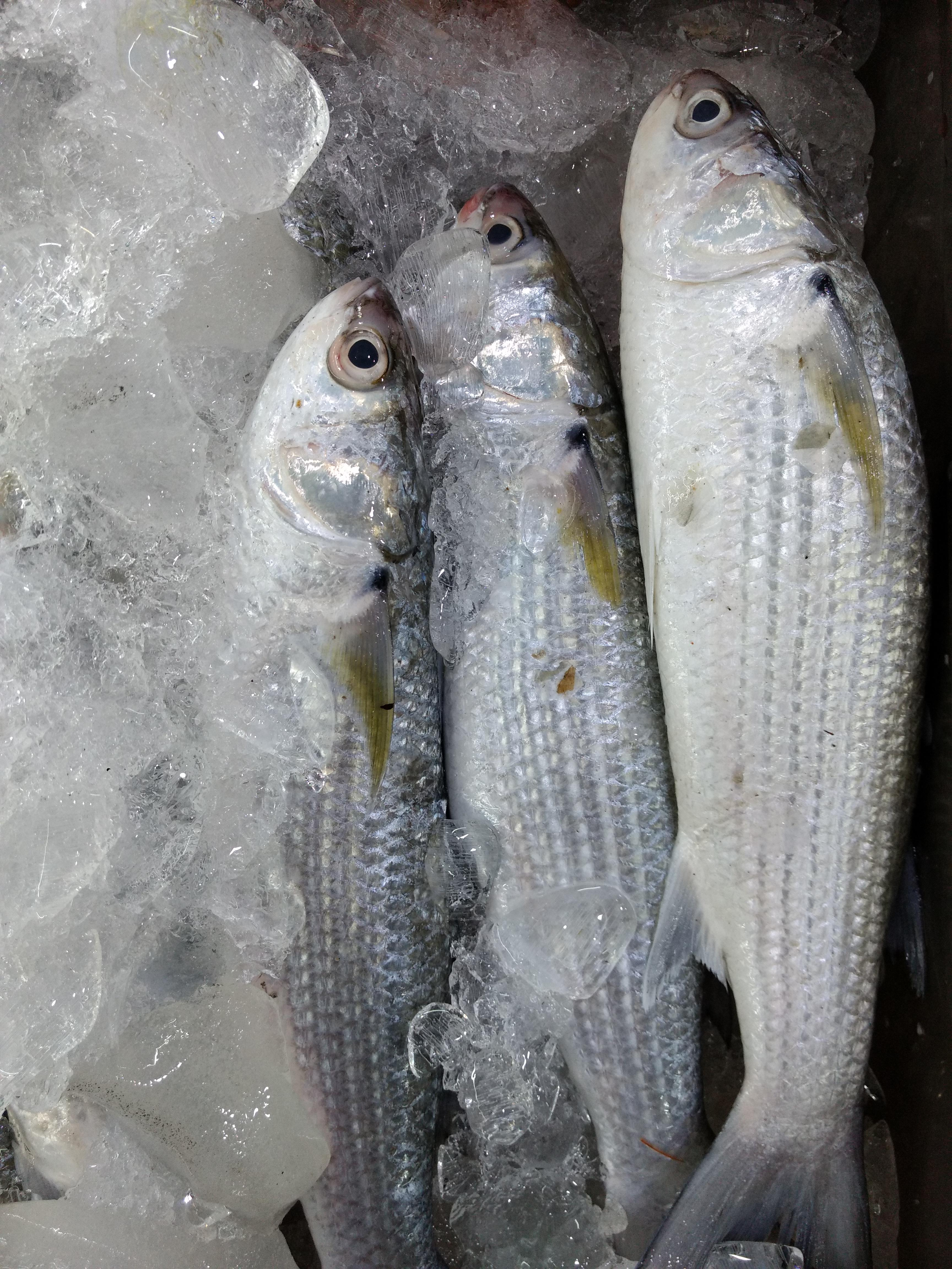 Flathead grey mullet kept in ice for sale, Kerala